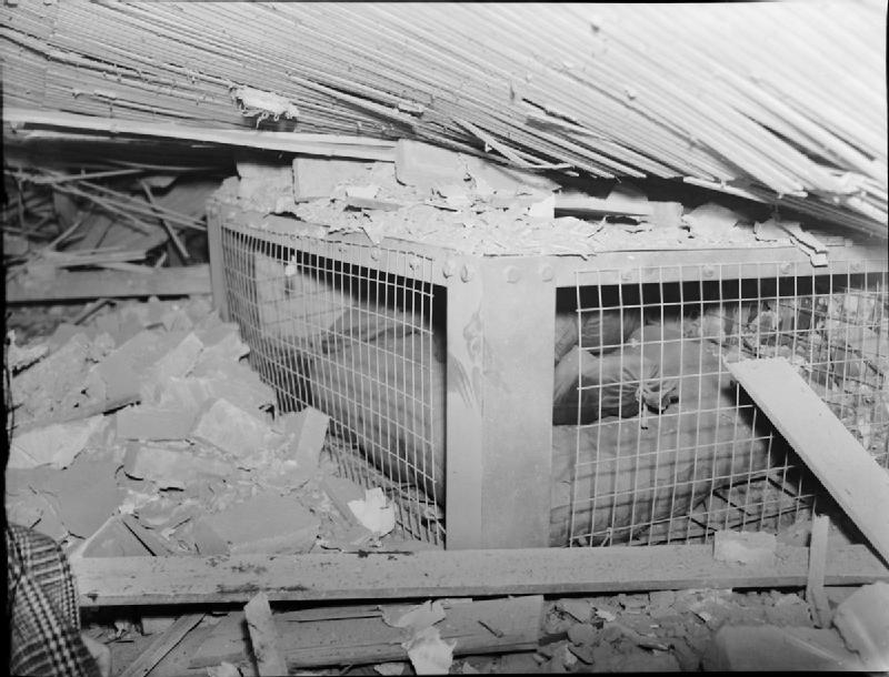 Morrison Shelter on Trial- Testing the New Indoor Shelter, 1941 A table-type indoor shelter remains intact under a pile of debris following a test to determine its strength, somwhere in Britain in 1941. The floor of the storey above rests on top of the shelter.